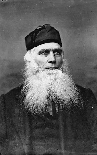 1 negative : glass, wet collodion, b&w ; 11 x 16.5 cm.